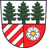 Coat of arms of Langenleuba-Niederhain